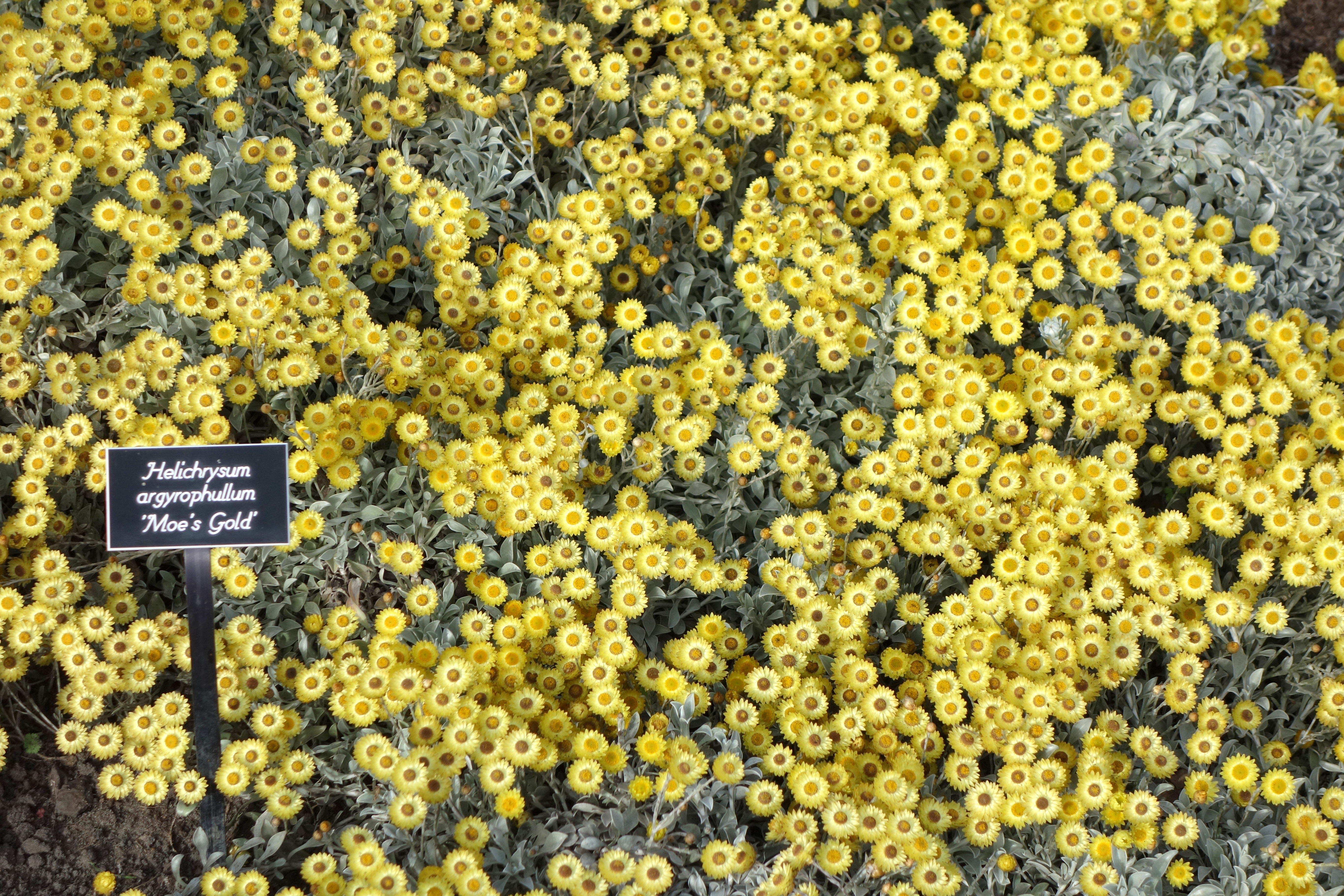 Botanical specimen in the Mendocino Coast Botanical Gardens, 18220 N Hwy 1, Fort Bragg, California, USA.